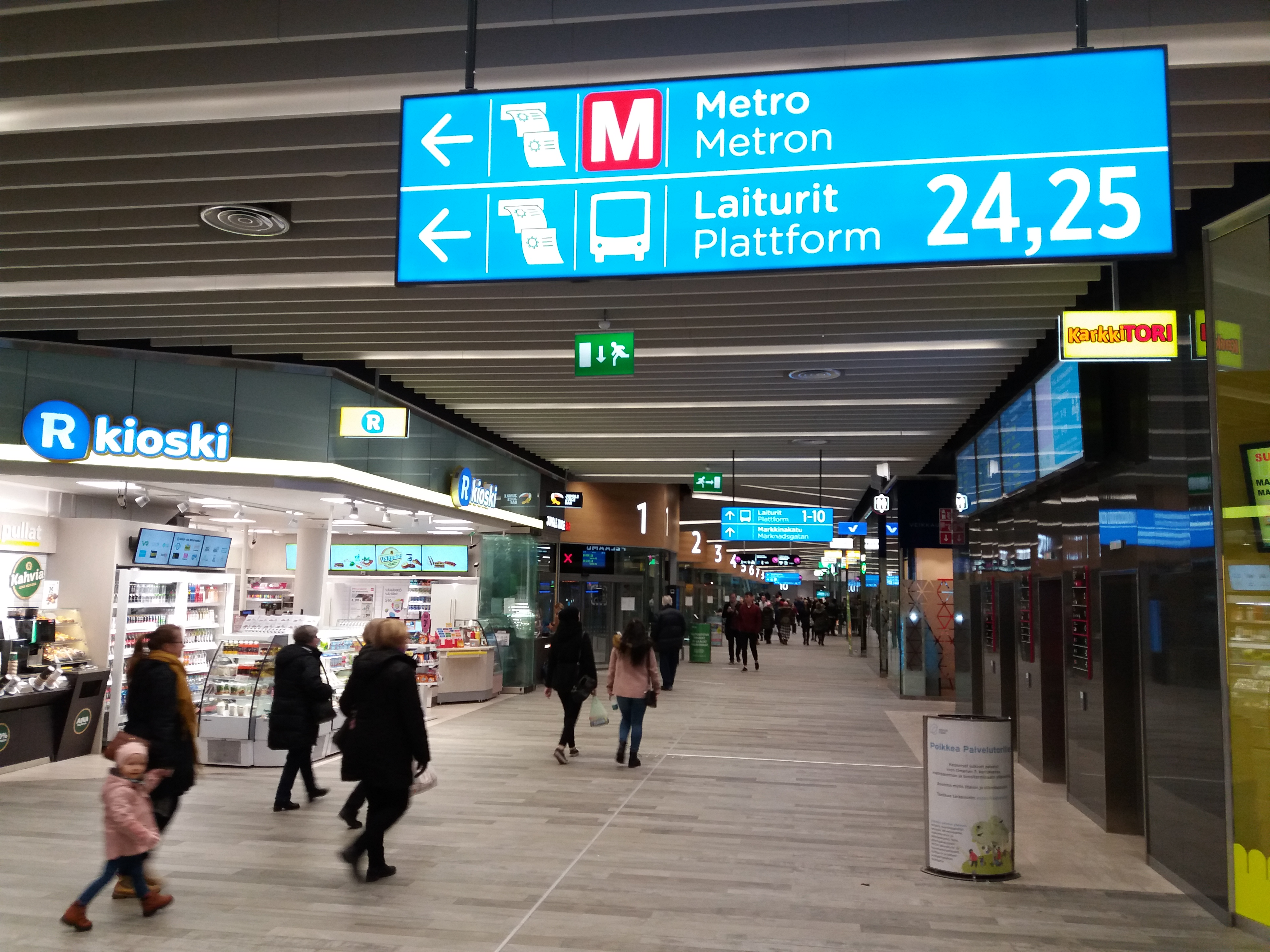 Local bus terminal in Iso Omena shopping mall / Matinkylä metro station, Espoo, Finland